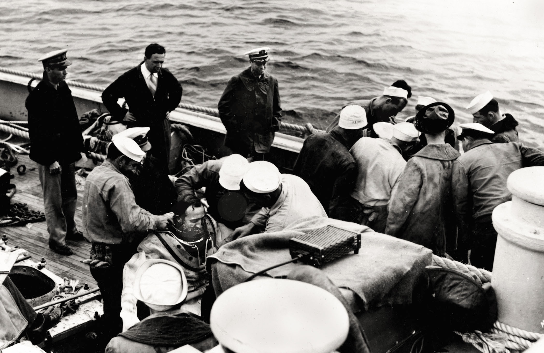 Navy File Photo – Cdr. Charles "Swede" Momsen stands next to the rail (third from left) as USS Falcon (ASR 2) crewmen suit-up two Deep Sea Divers during the rescue/salvage operation following the sinking of the U.S. Navy submarine USS Squalus (SS 192). Momsen led the successful effort, which resulted in the rescue of 33 submariners trapped aboard Squalus and remains to this day the greatest undersea rescue in history. U.S. Navy photo. (RELEASED)